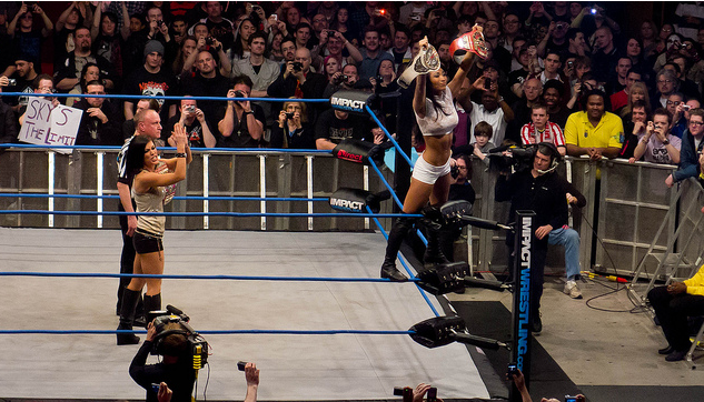 Gail Kim and Madison Rayne in London.